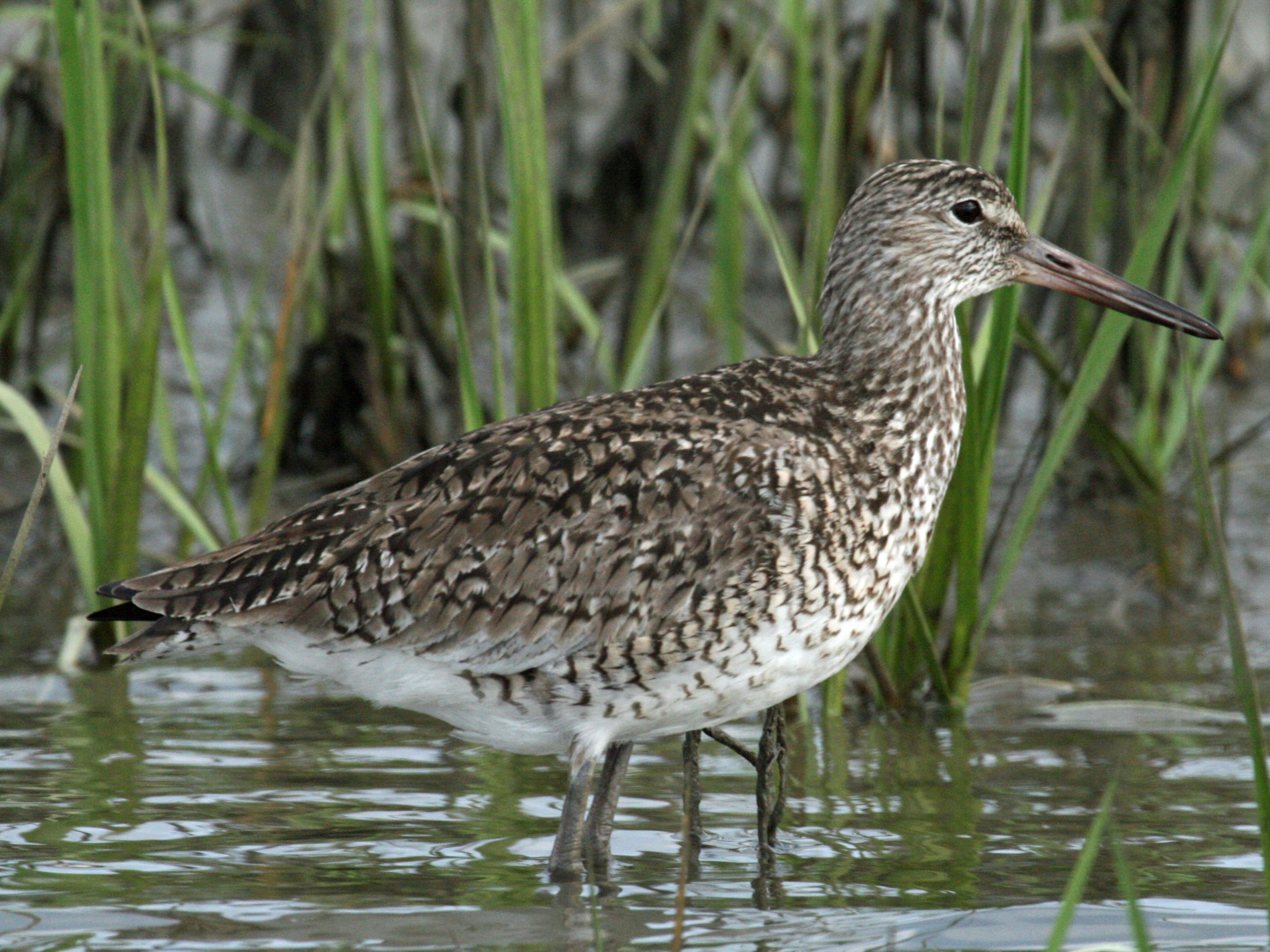 Willet (Tringa semipalmata) at Sunset Beach, North Carolina